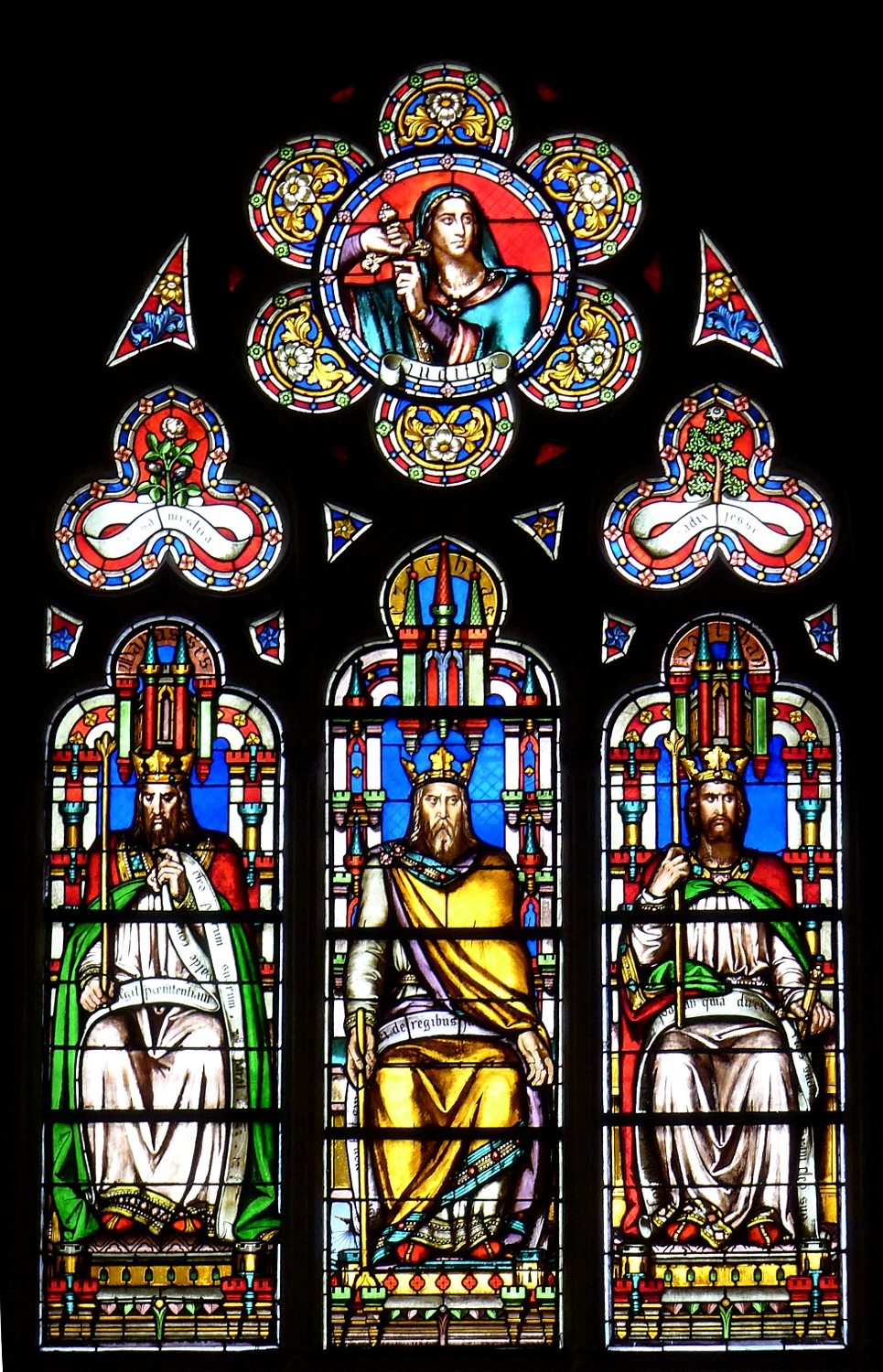 Saint-Germain-l'Auxerrois church - Paris